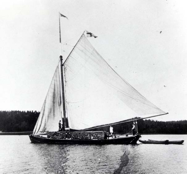 Sailing ship Alcea